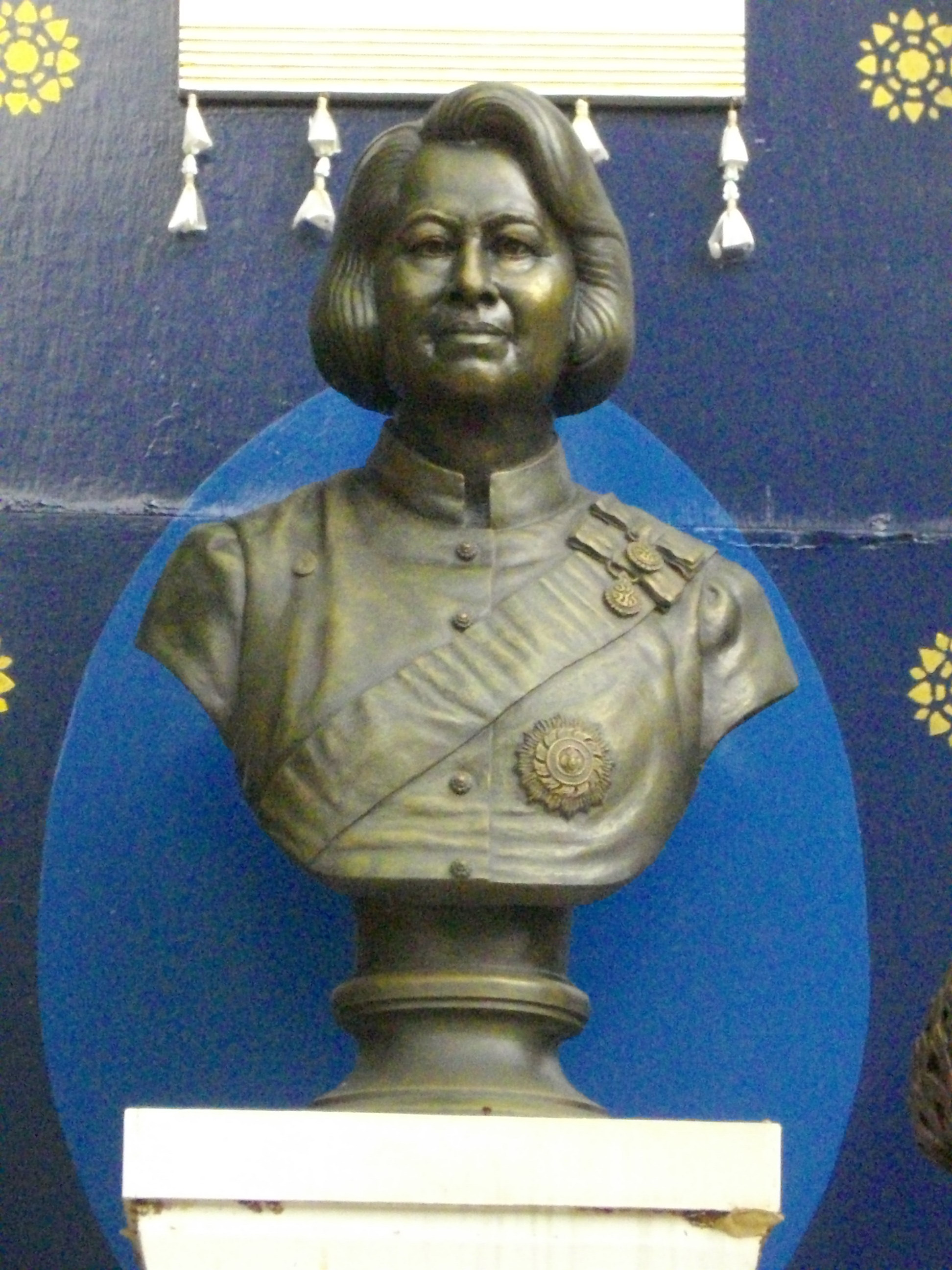 A bust of HRH Princess Galyani Vadhana situated in front of Silpakorn University, Bangkok